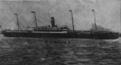 Postcard in memory of those lost in the sinking of HMTS Marquette, in the Mediterranean on 23 October 1915. Image of the ship is surrounded by the names of the New Zealanders lost. Full names of the members of the New Zealand Medical Corps, and the New Zealand nurses from website at Copy negative made by William Archer Price.